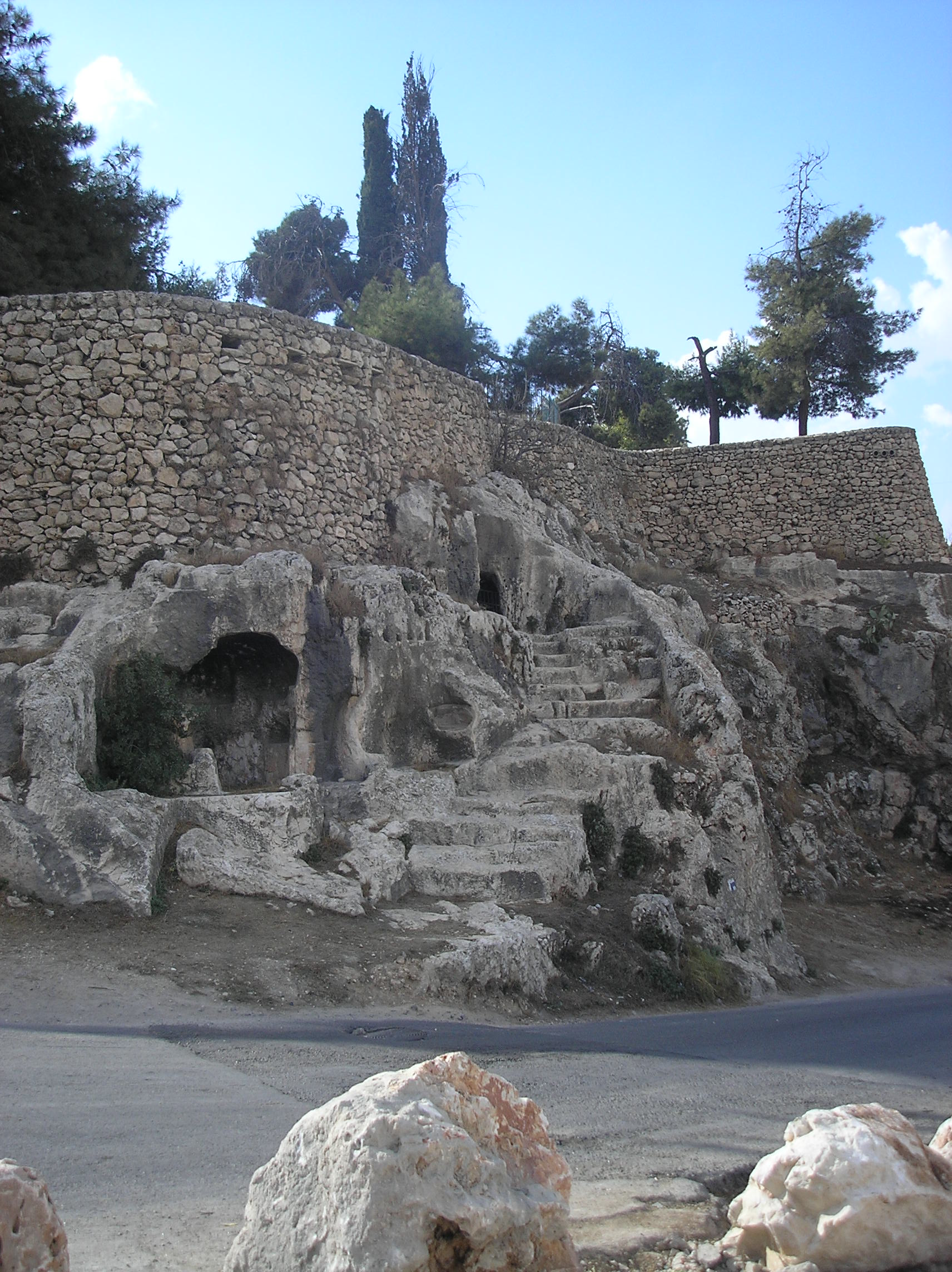 Valley of Hinom